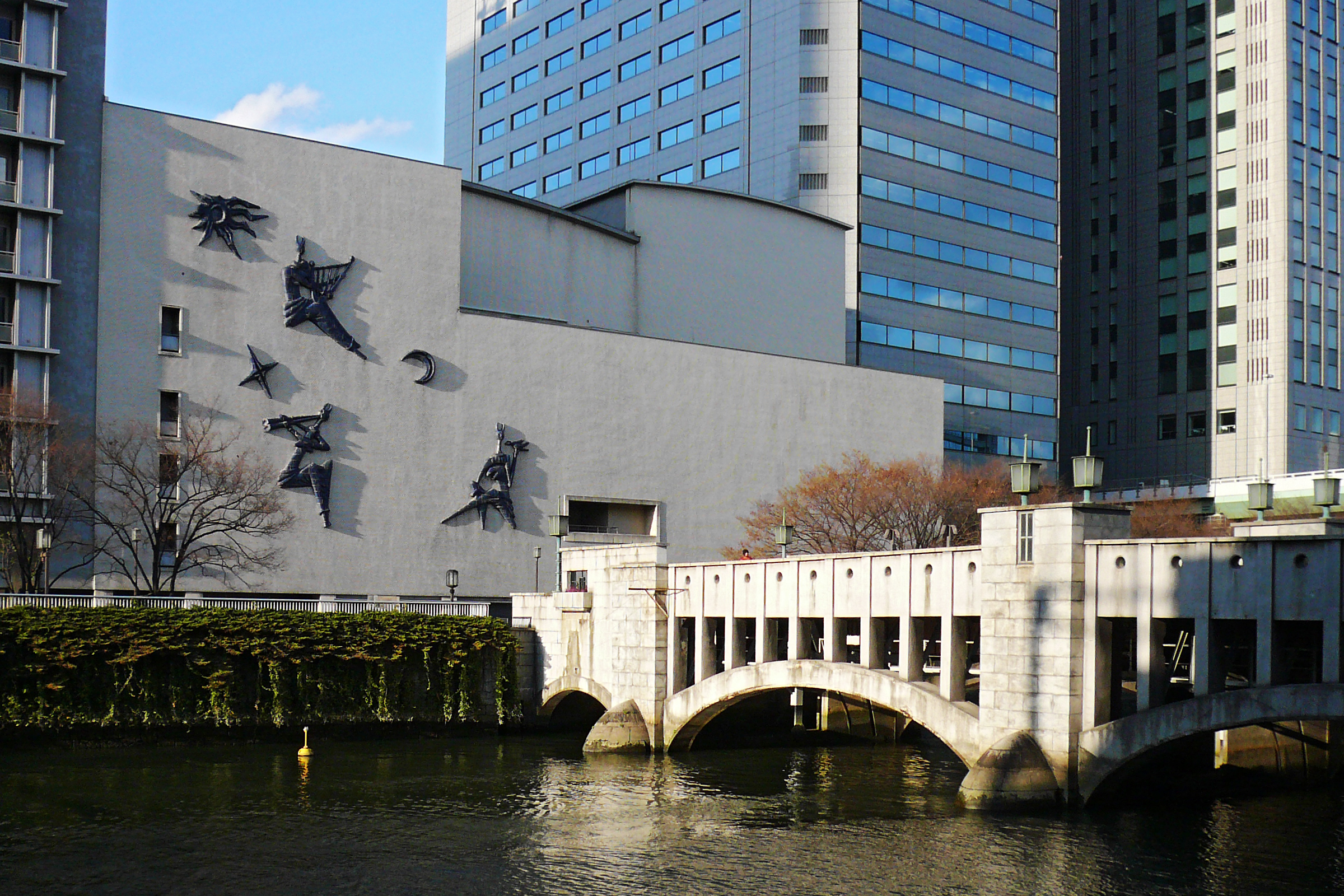 Festival Hall in Osaka, Osaka prefecture, Japan